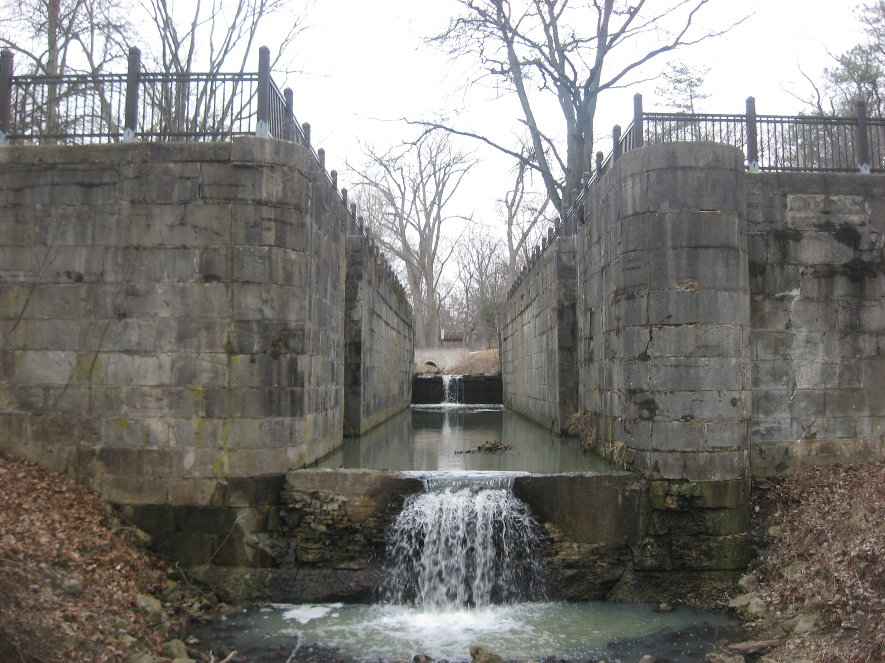 Looking upward through Sidecut Lock Four of the Miami and Erie Canal toward Sidecut Lock Three at Sidecut Park in Maumee, Ohio, United States. Built in 1843, the locks are part of the canal's Maumee Sidecut portion, which is listed on the National Register of Historic Places.